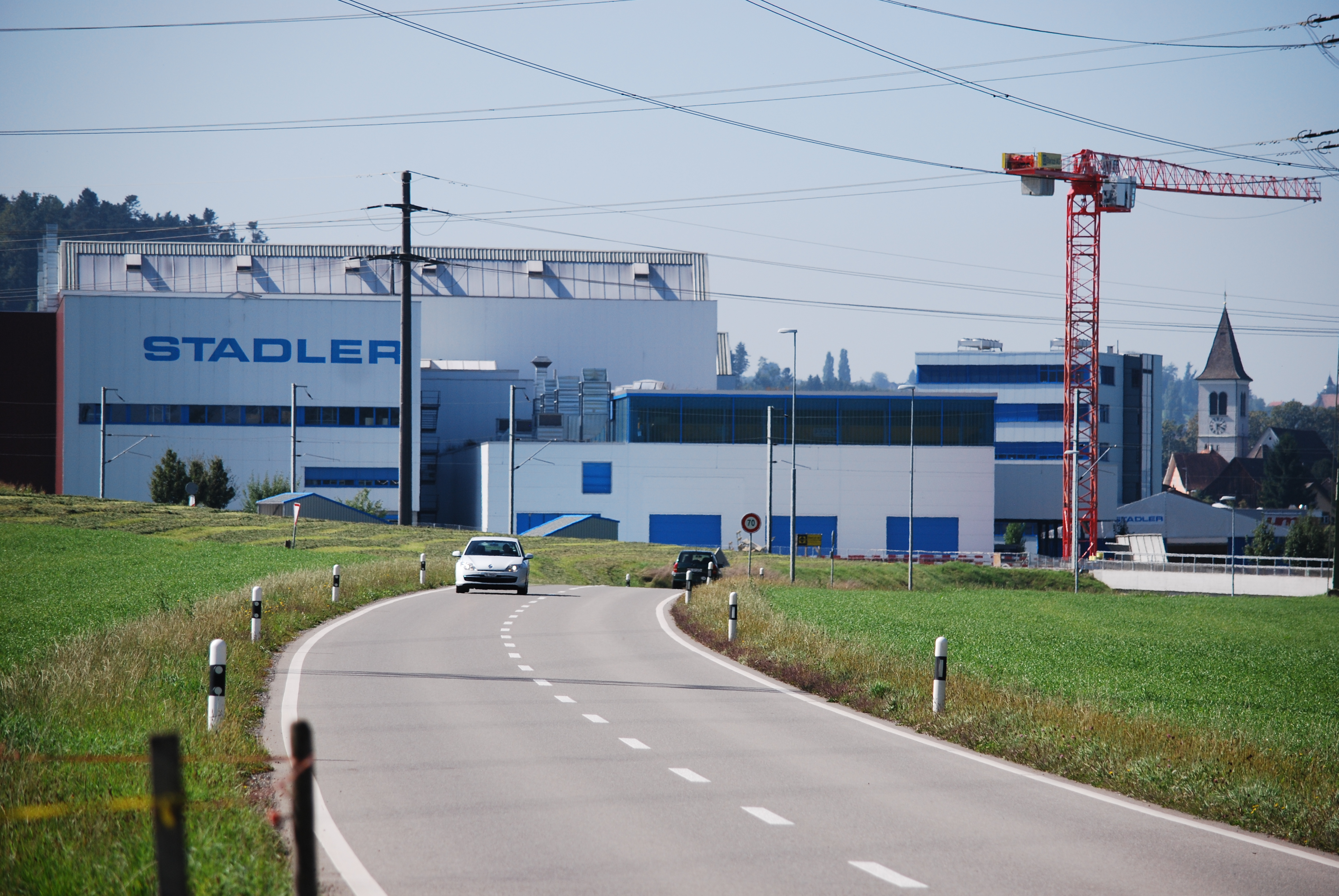 Bussnang, canton of Thurgovia, Switzerland